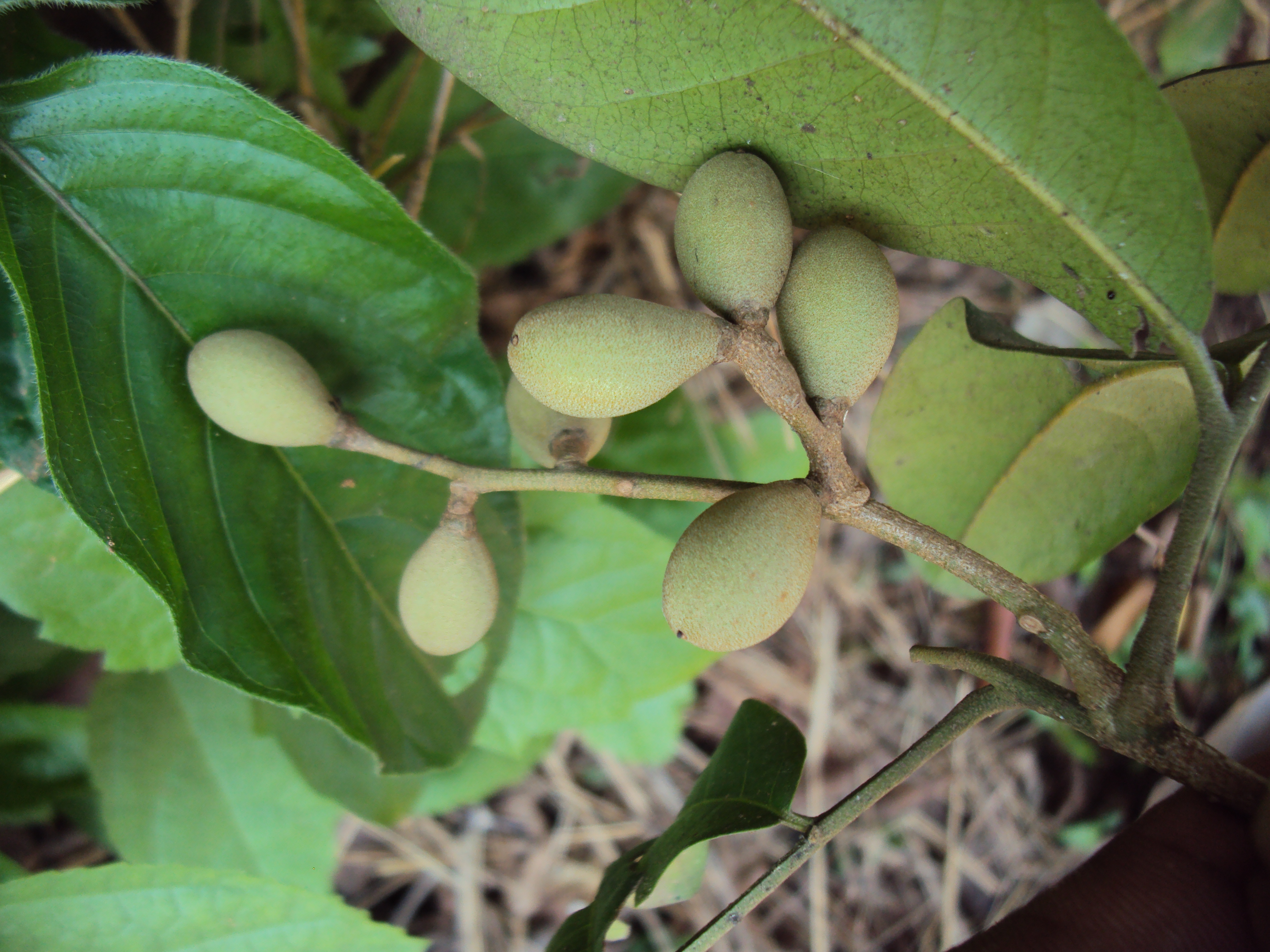 Aglaia elaeagnoidea